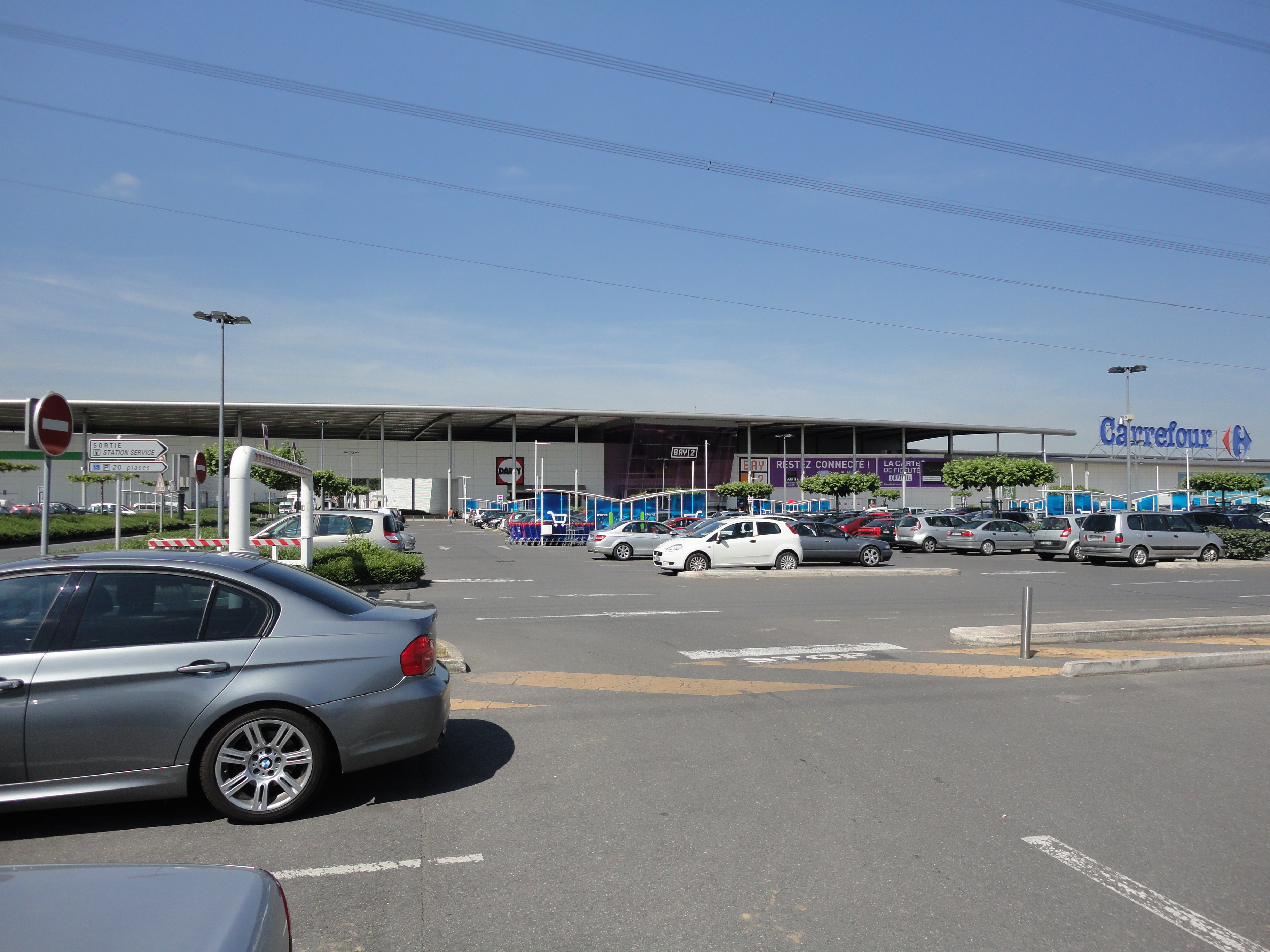 View from the parking of Bay 2 the mall of Torcy (France)